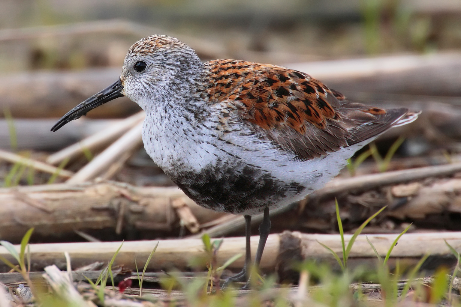 Dunlin - Hillman Marsh (near Point Pelee), Canada